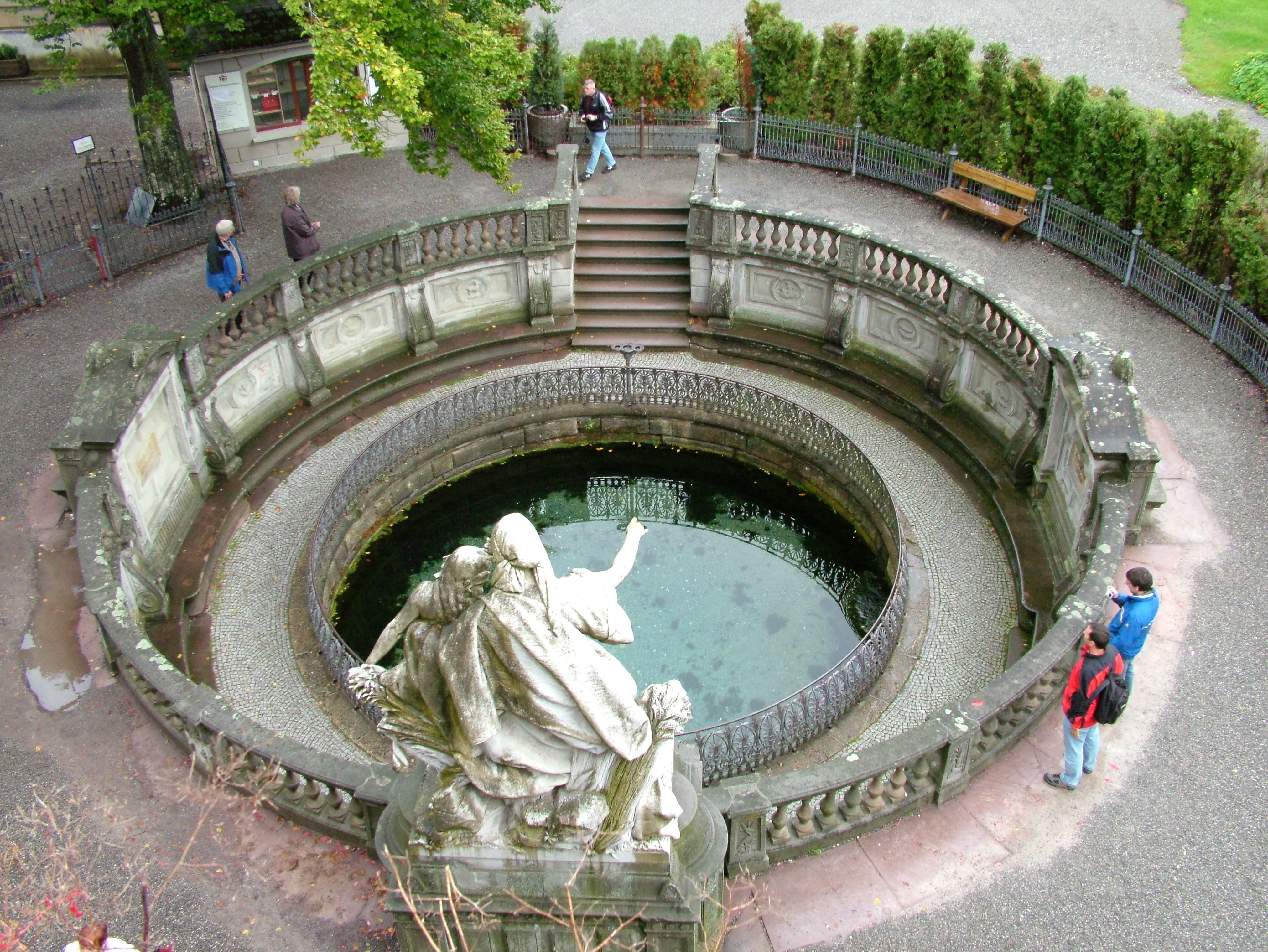 The spring of the Danube in Donaueschingen